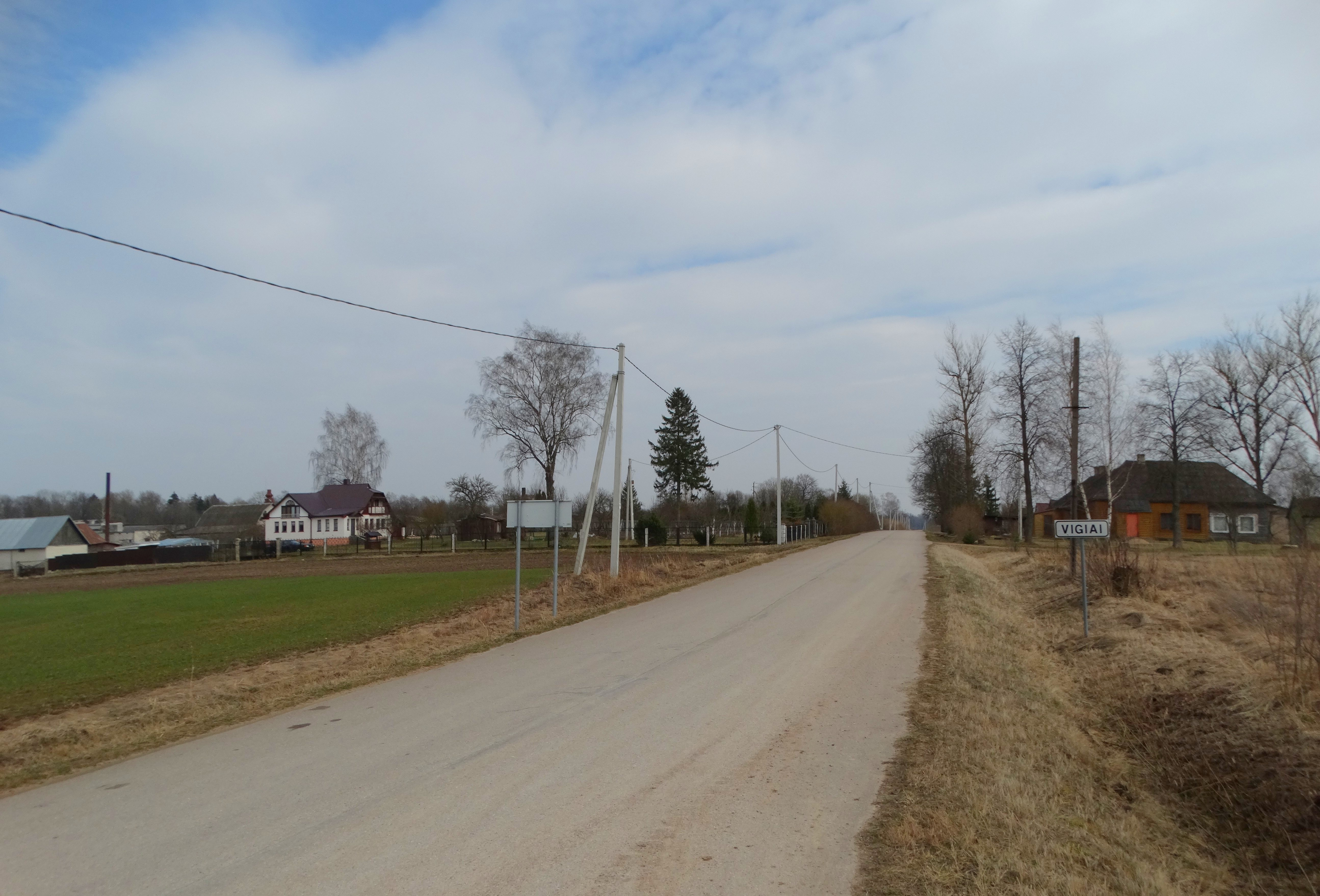 Vigiai, Kaunas district, Lithuania